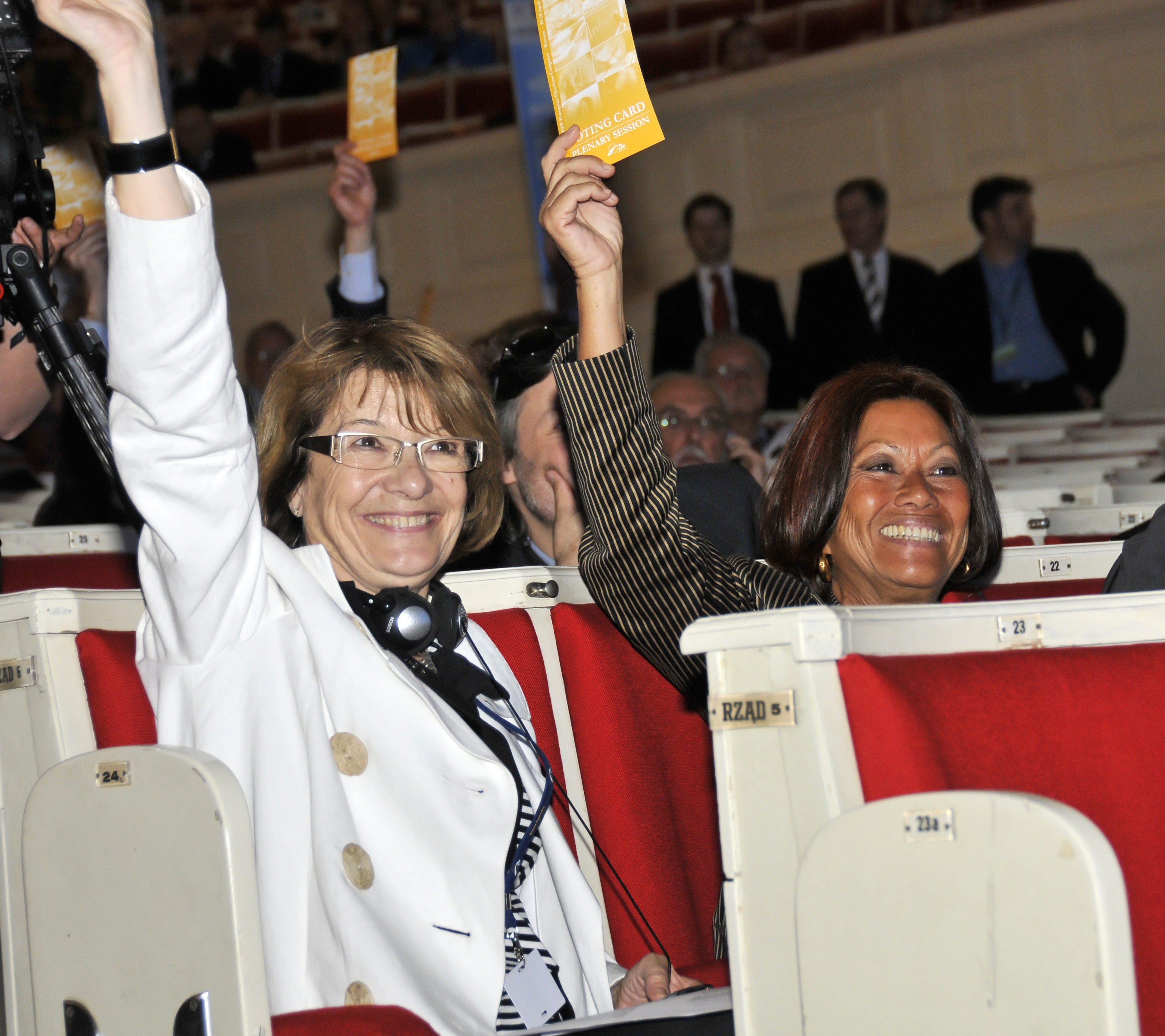 EPP Congress Warsaw